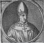 A lithography of Pope Romanus, made before 1923